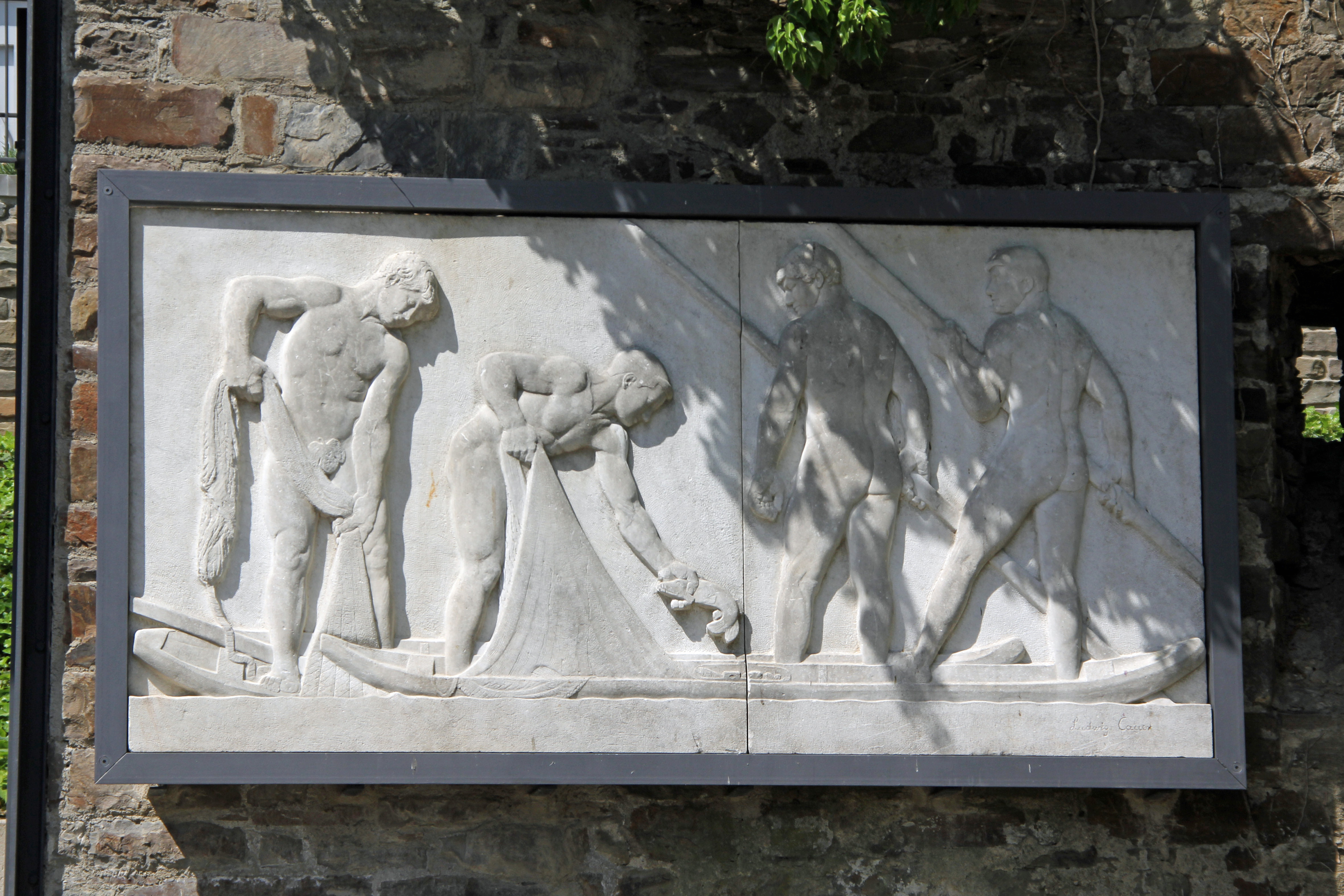 Rhine park in Koblenz